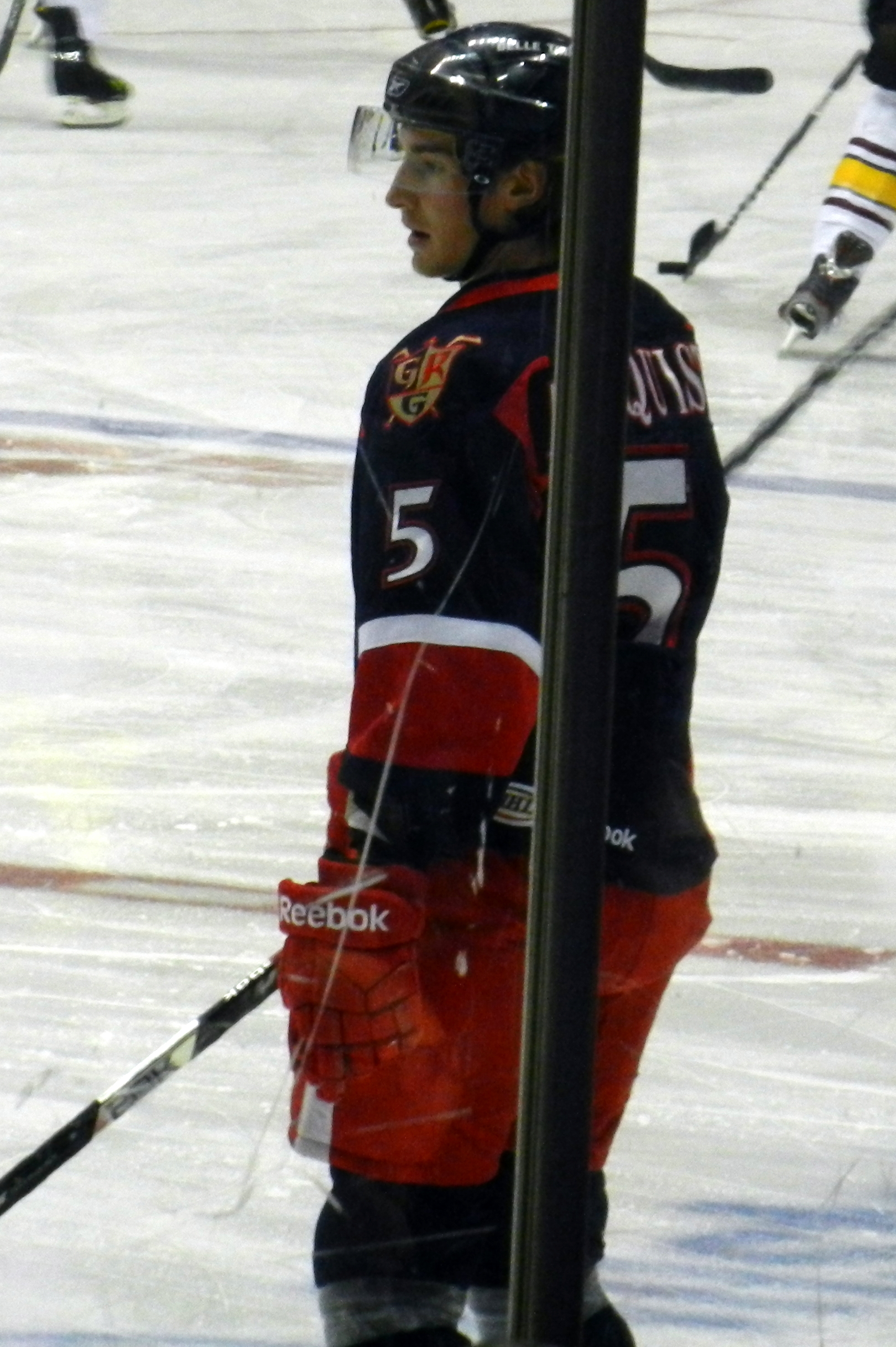 Adam Almqvist playing for the American Hockey League's Gran Rapids Griffins